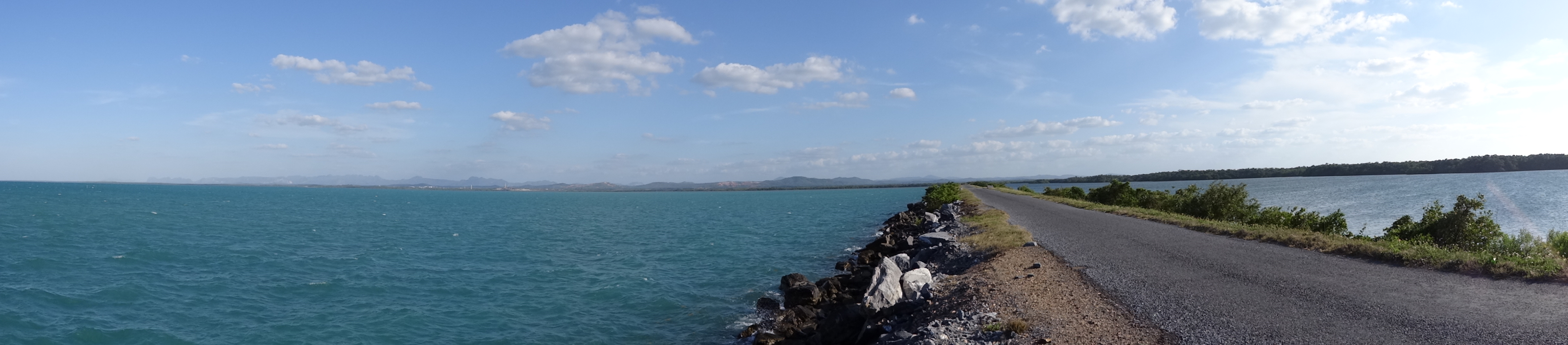 View of mainland from Cayo Jutías, Cuba